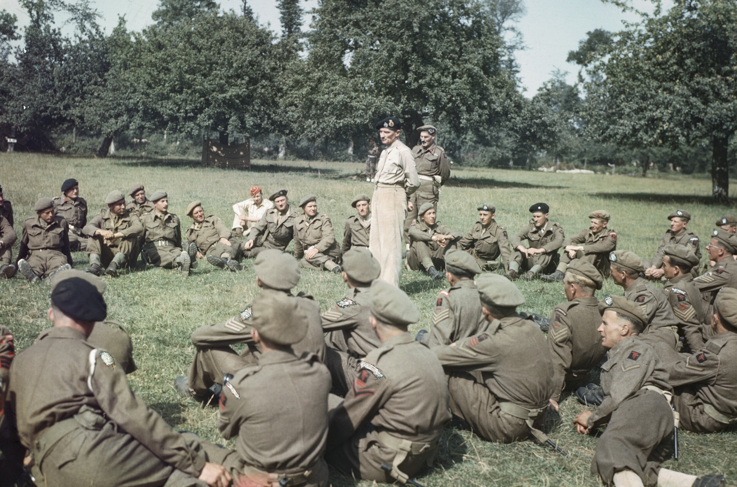 General Montgomery Decorates Men of the 50th Division in Normandy, 17 July 1944 General Sir Bernard Montgomery addressing the men of 50th Division before decorating them for gallantry during the Normandy landings.